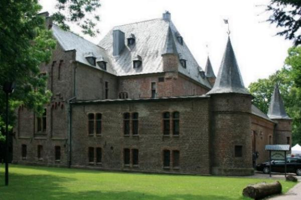 Burg Ingenhoven, Cultural heritage monument No. 28 in Nettetal